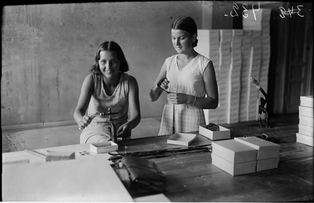 Young women busy at the Bergström cardboard box factory in Turku, Finland, in 1932.